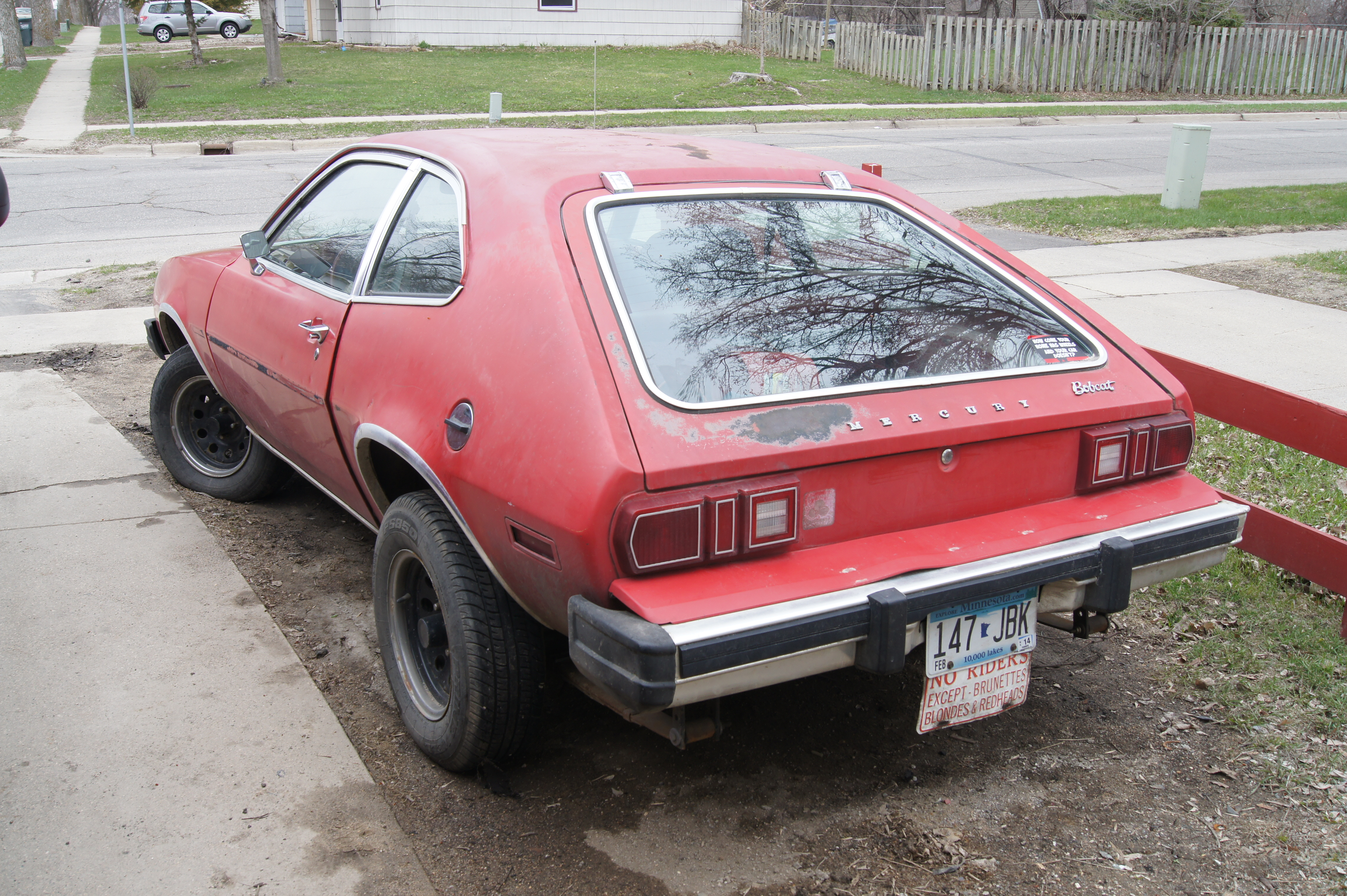 80 Mercury Bobcat